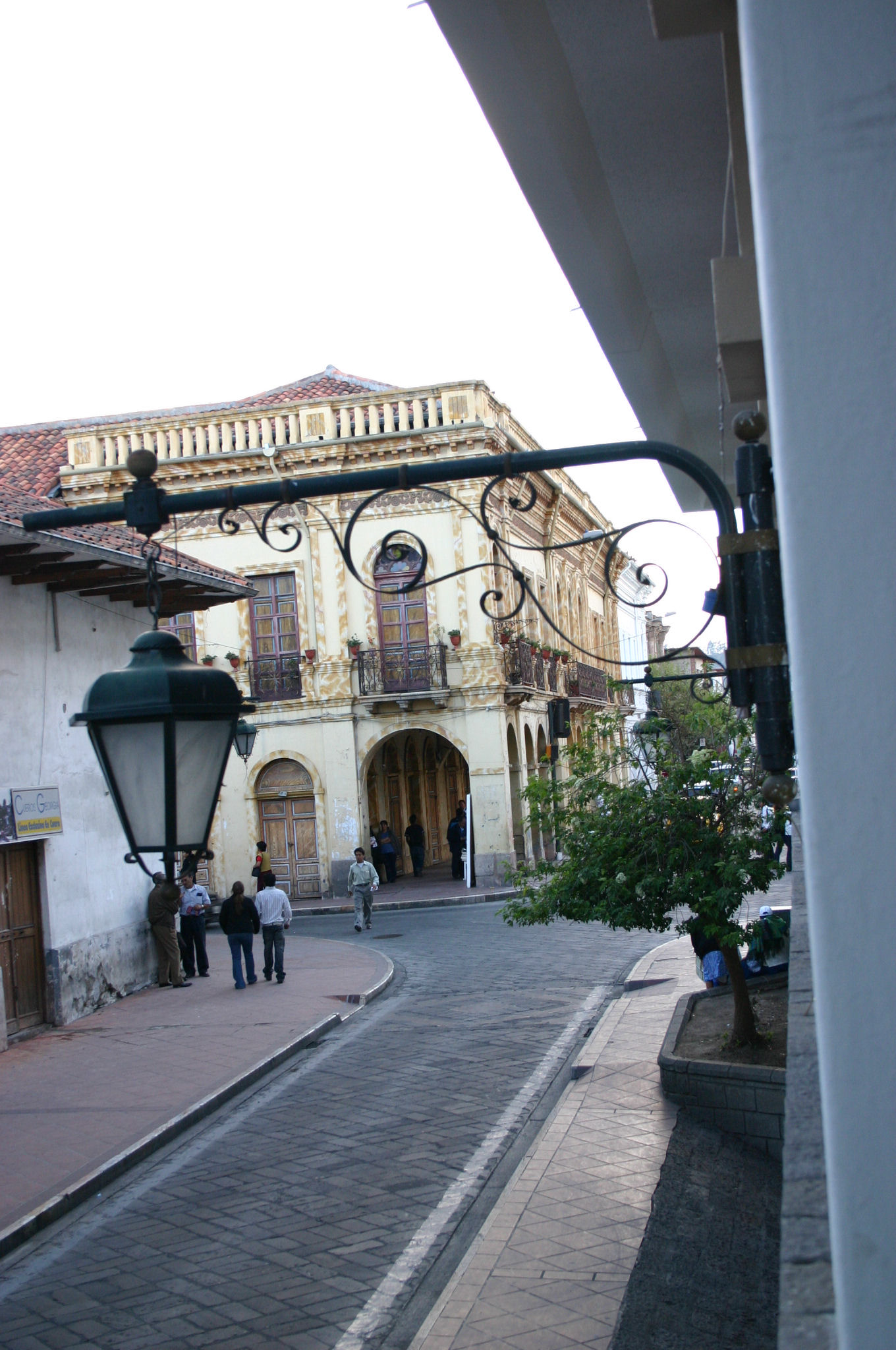 Hexagonal bracket lantern in a street of Cuenca, Ecuador